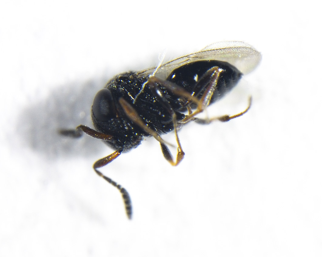 2020-07-09T10:58:57